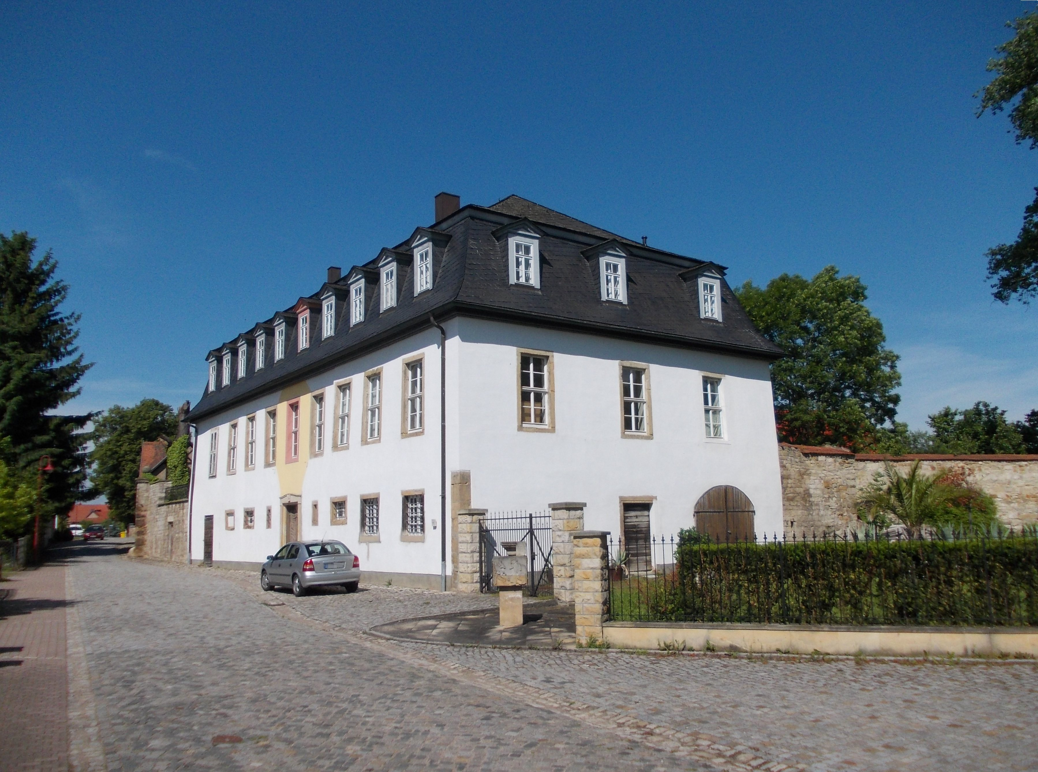 Castle ("forester's house") in Hardisleben (Sömmerda district, Thuringia)